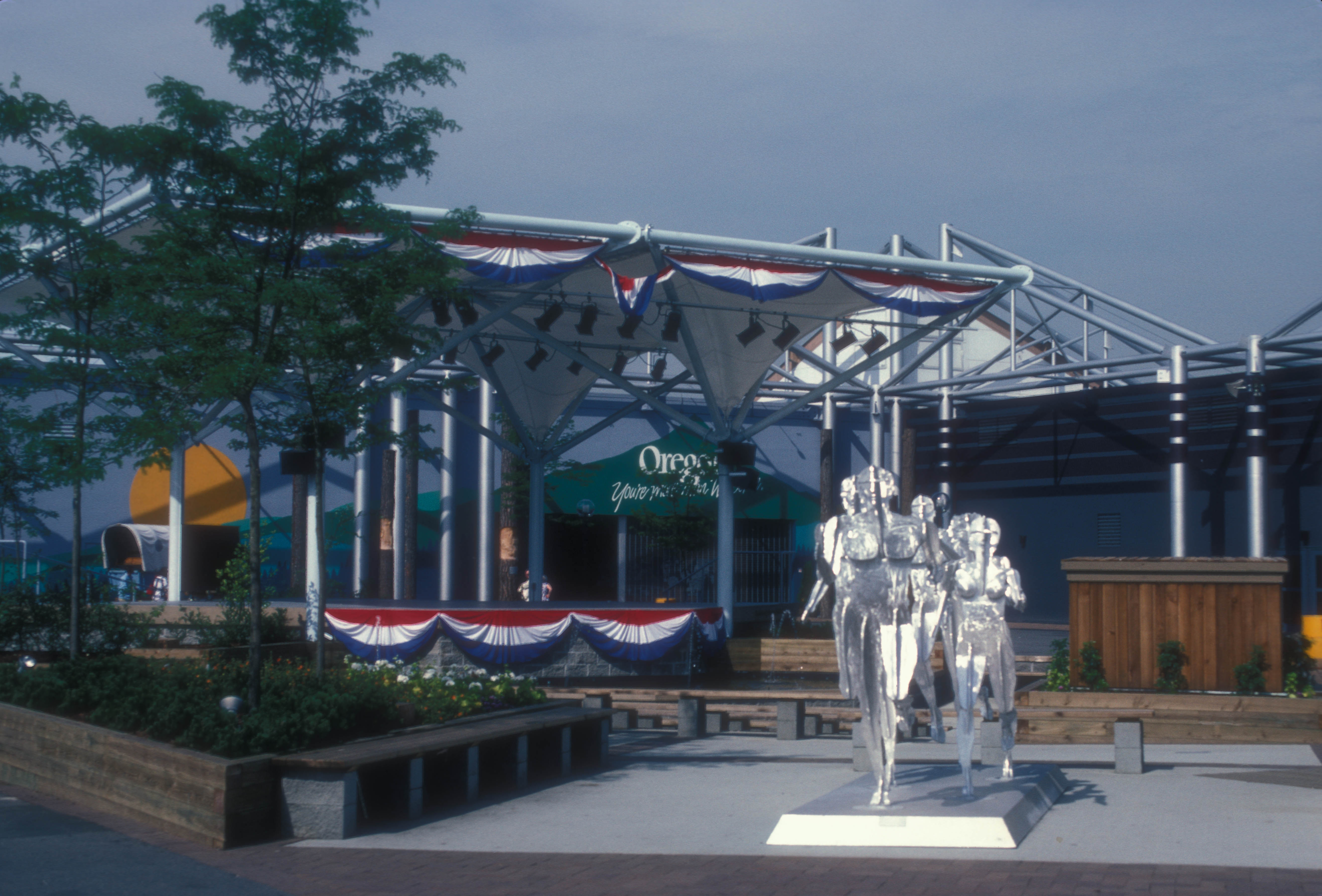 OREGON PAVILION - FEATURES THE COVERED WAGON WHICH BROUGHT THE FIRST IMMIGRANTS TO THE STATE